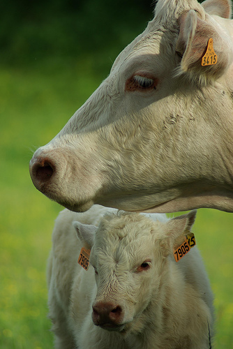 Charolaise cow with it calf.